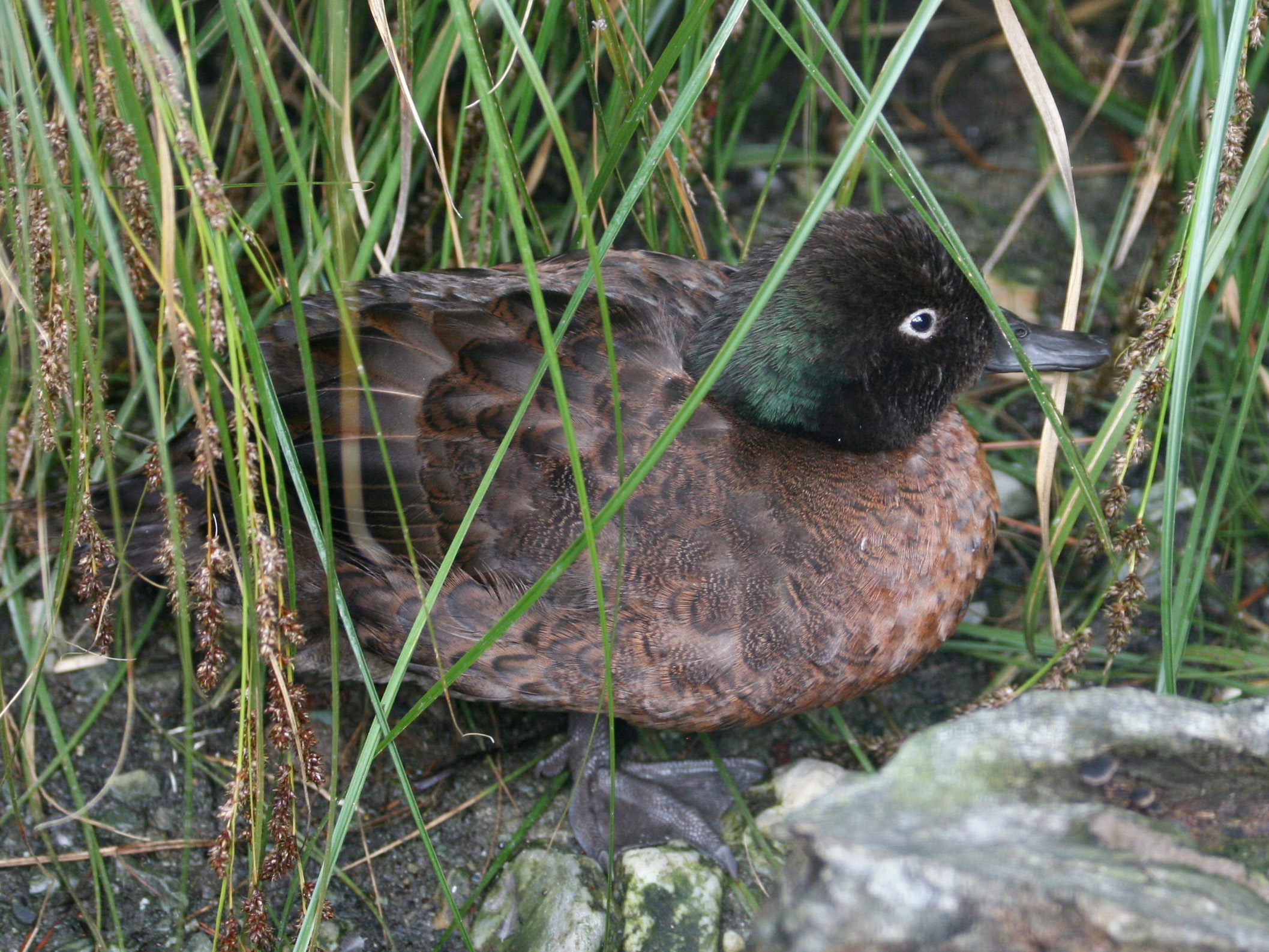 Campbell Teal or Campbell Island Teal (Anas nesiotis) - Kiwi Birdlife Park, New Zealand